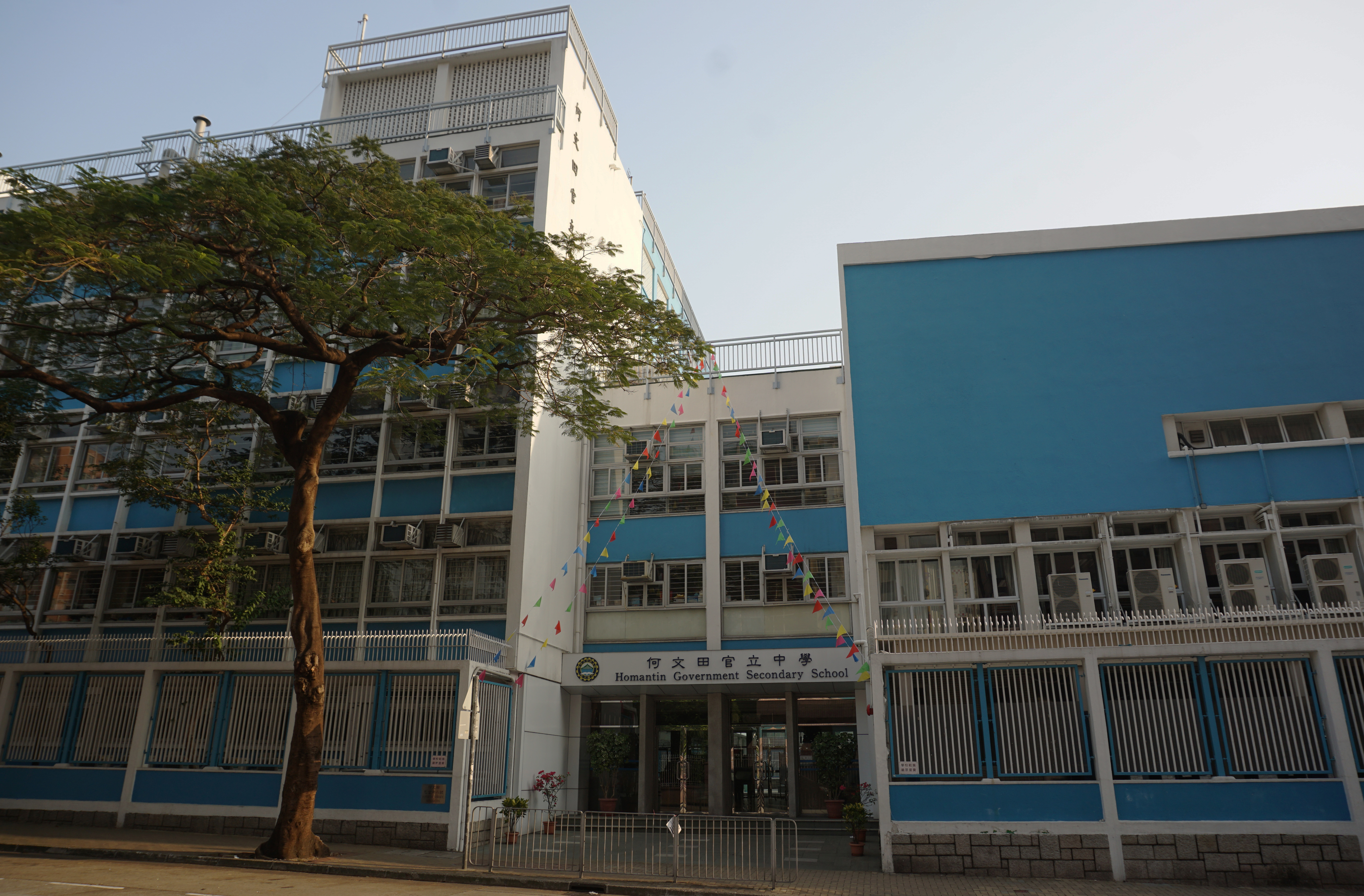 Homantin Government Secondary School in Ho Man Tin, Hong Kong.